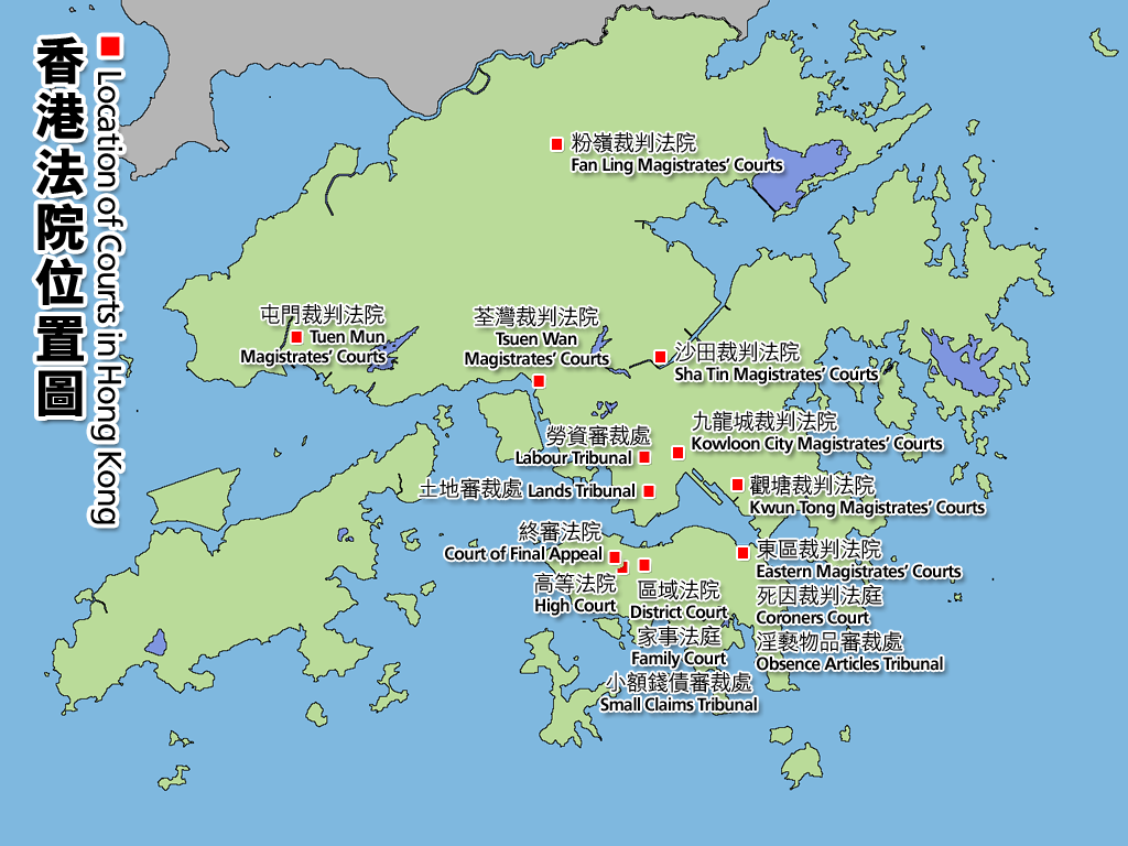 香港法院位置圖 Location of Courts in Hong Kong